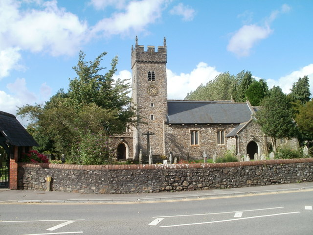 Llanishen takes its name from the church (Welsh Llanisien llan church + Isien Saint Isan). The church building is in the English style. It was formed from the original Norman church, with the addition of a tower in the 15th century. Major work in 1908 created the present-day appearance of the church building.